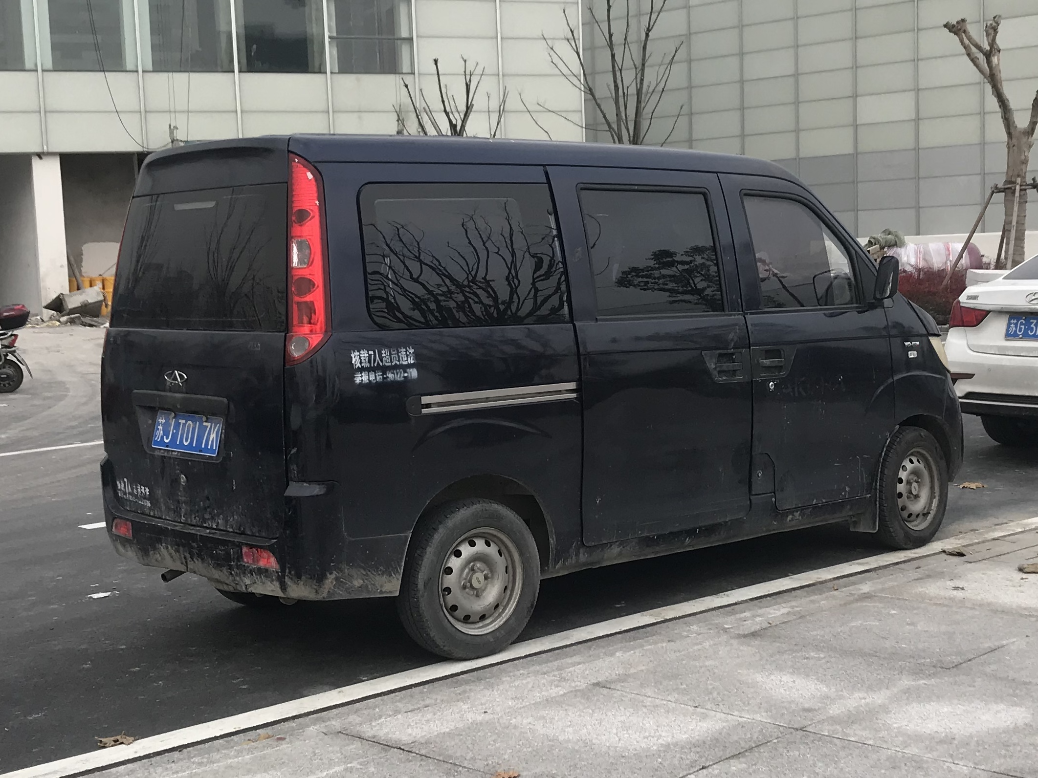 Chery Q22 (Karry Youyou) rear